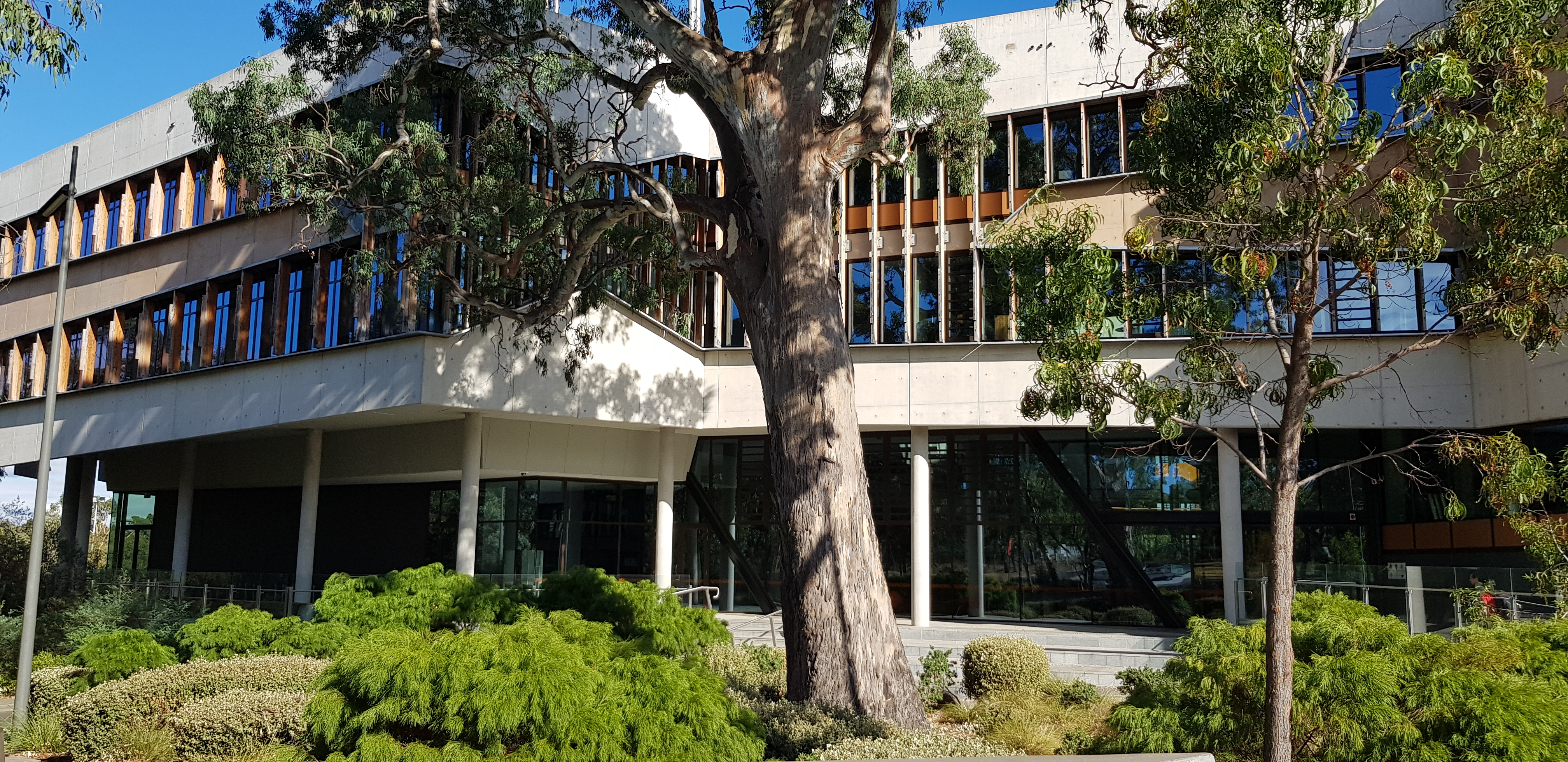 La Trobe University, Melbourne Agribio building. Front exterior photograph.